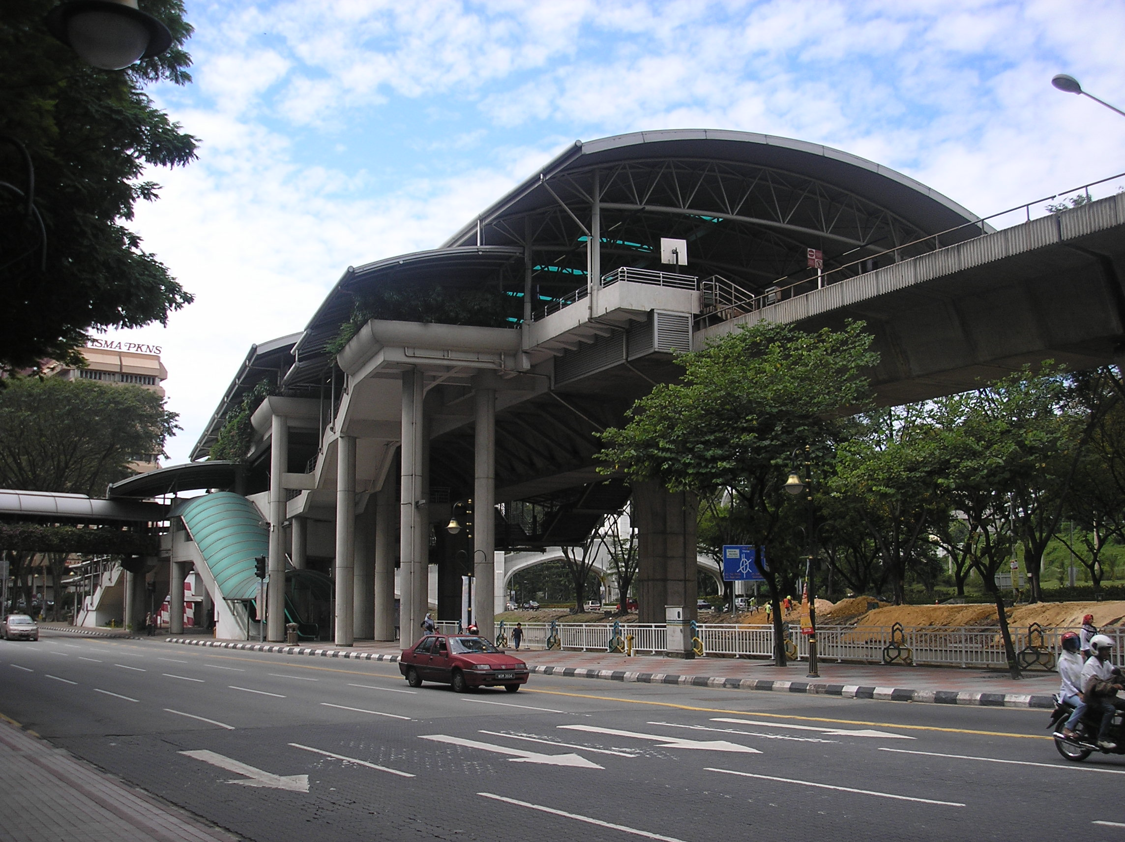 The exterior of the Bandaraya LRT station (Sri Petaling Line/Ampang Line), Kuala Lumpur, Malaysia.